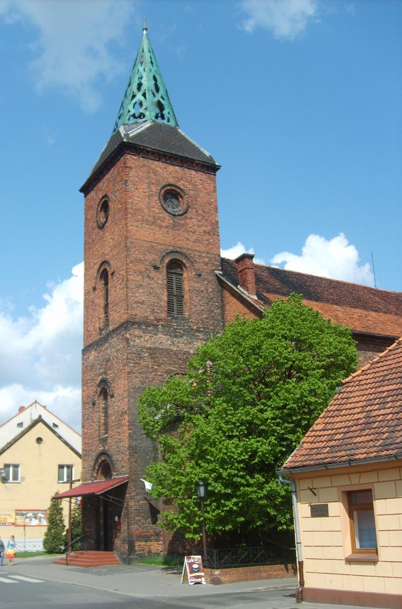 Jarocin, Poland